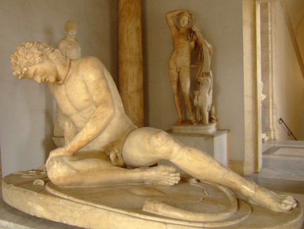 The Dying Gaul is one of the best-known and most important works in the Capitoline Museums. It is a replica of one of the sculptures in the ex-voto group dedicated to Pergamon by Attalus I to commemorate the victories over the Galatians in the 3rd and 2nd centuries BC. The identity of the author of the original is unknown, but it has been suggested that Epigonus, the court sculptor of the Attalid dynasty of Pergamon, may have been its creator.